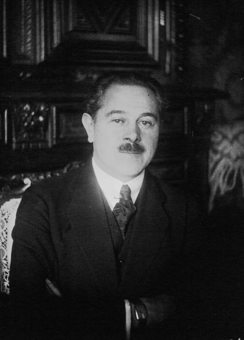 Captain Jacques Sadoul, photographed during his retrial for treason.